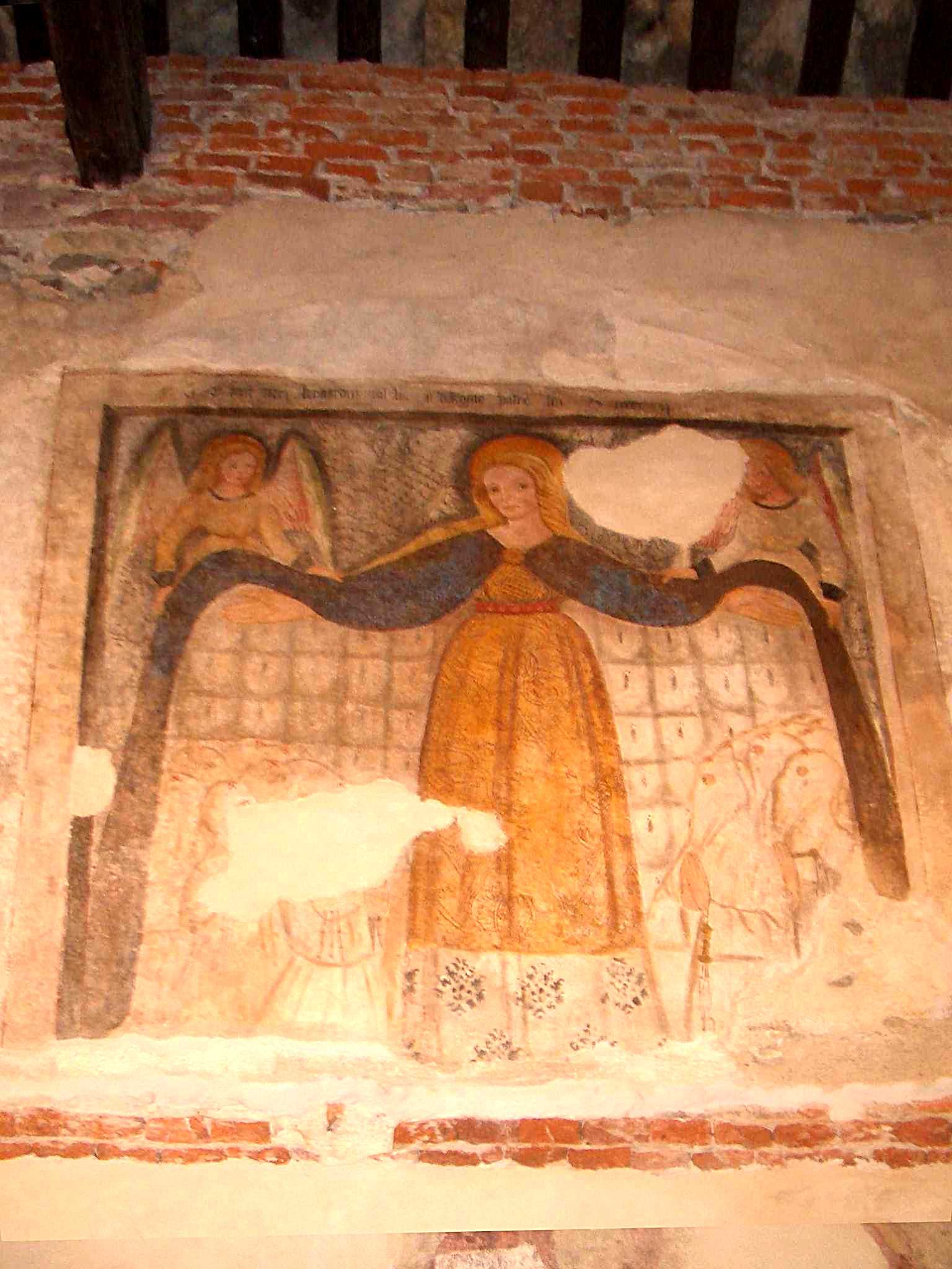 Rocca Canavese, Santa Croce chapel, fresco in the nave representing the The Virgin of Mercy